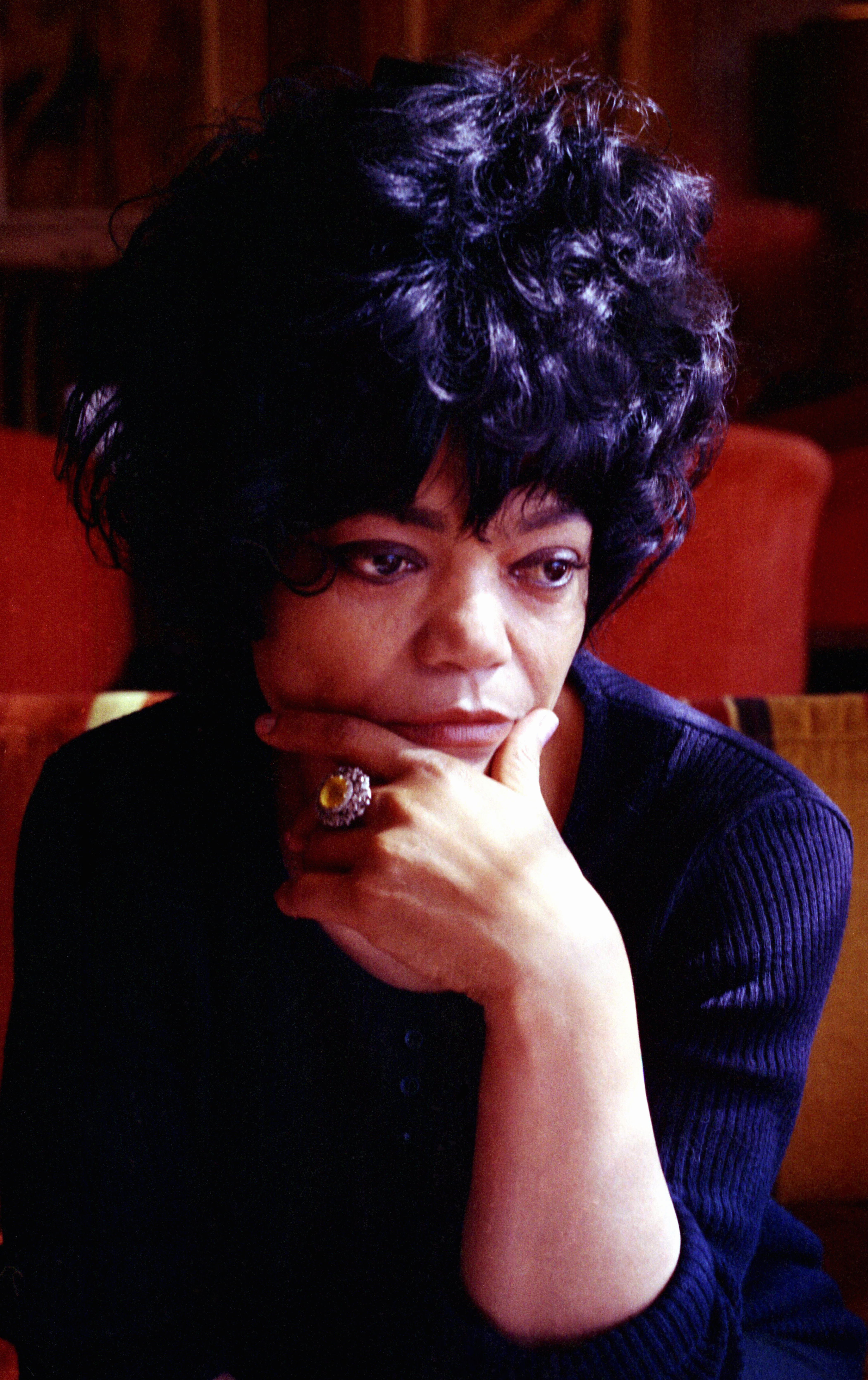 Eartha Kitt at the Carlton Tower Hotel, London